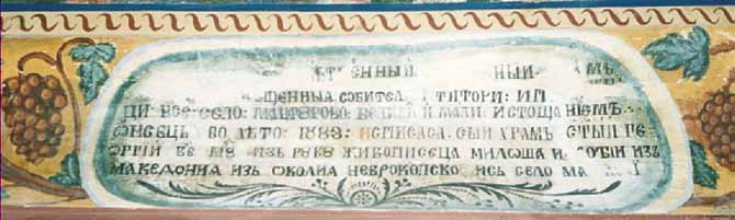 Saint George Church in Sapareva Banya Inscription